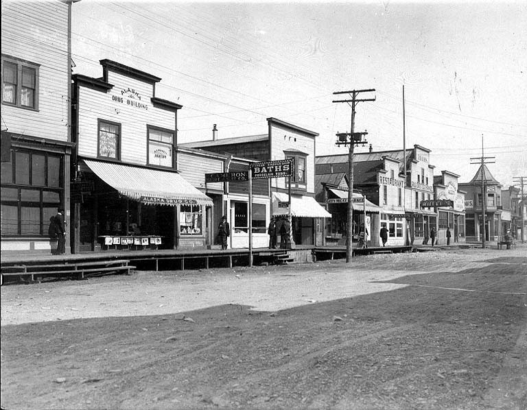 From John Cobb field notebook: McKinley Avenue, Valdez, Alaska. June 24, 1908 Subjects (LCTGM): Stores & shops--Alaska--Valdez; Streets--Alaska--Valdez Subjects (LCSH): McKinley Avenue (Valdez, Alaska); Valdez (Alaska)